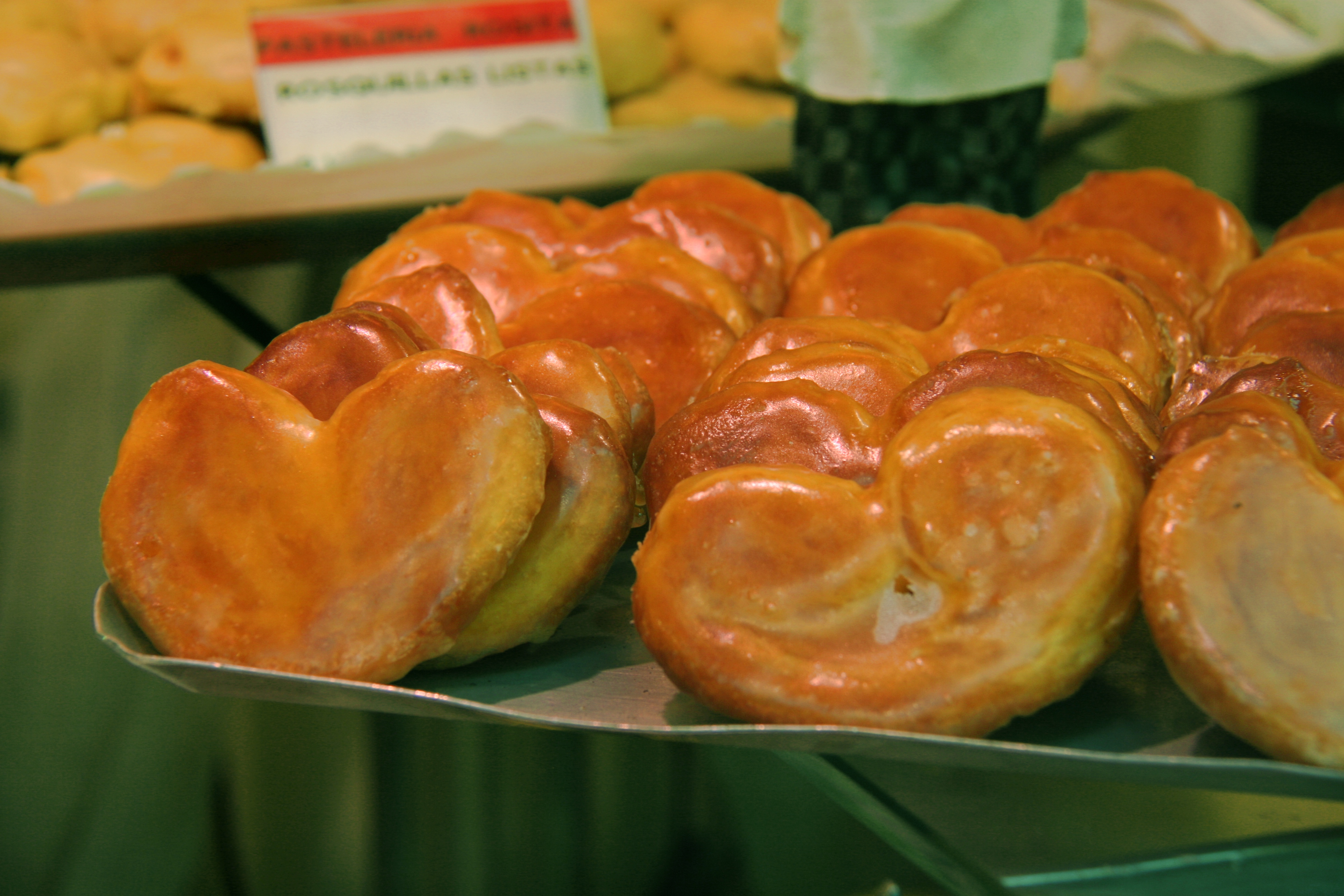 Pameras sugar glazed